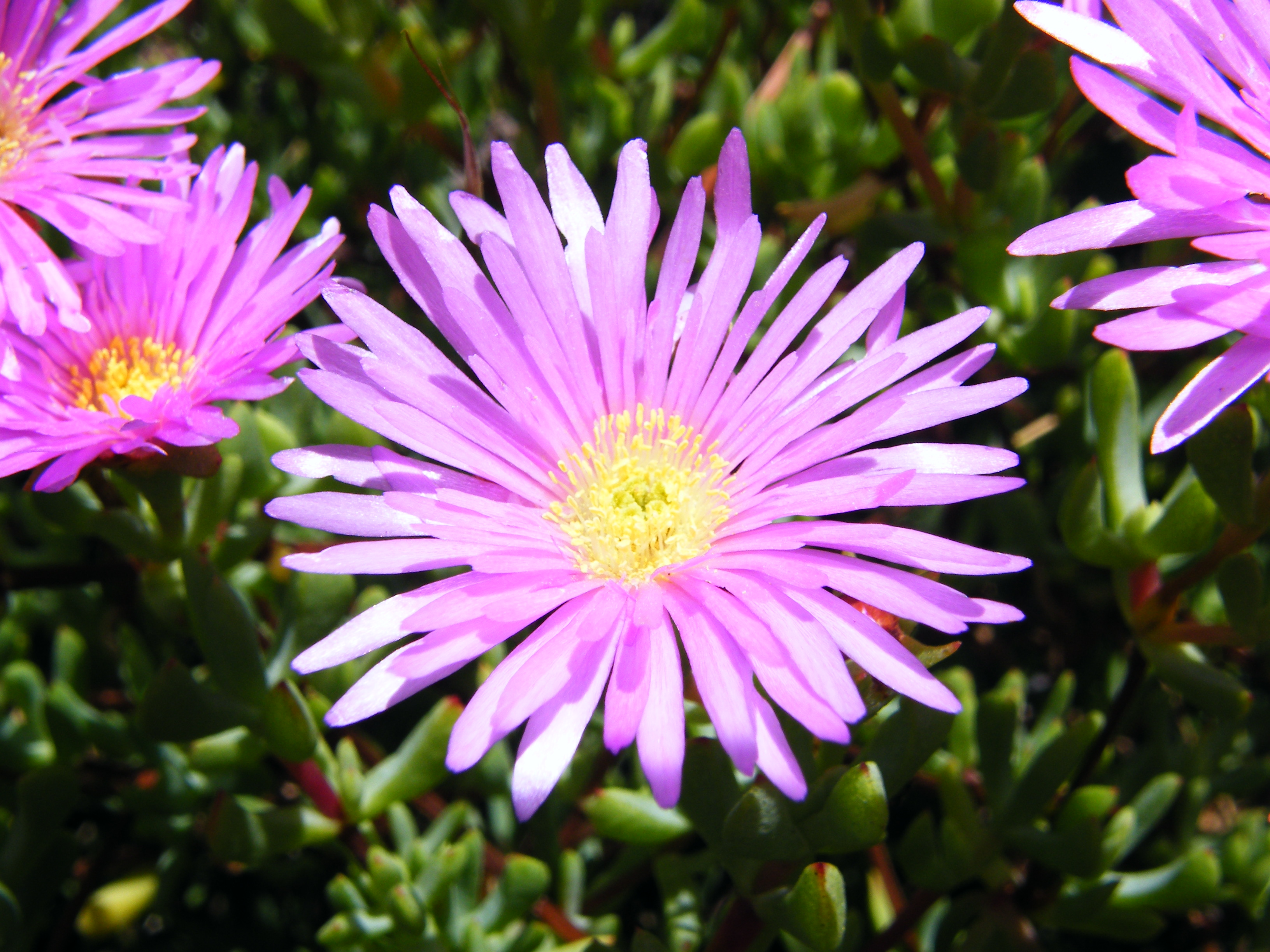 Lampranthus falciformis